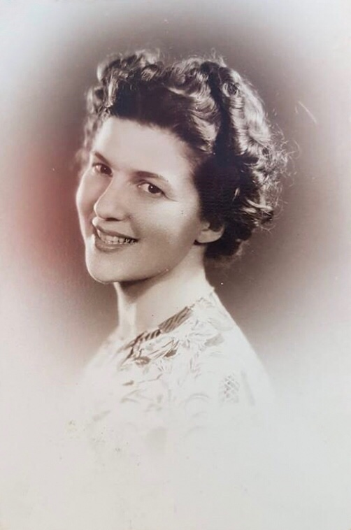 A portrait of Sabiha Kasimati in 1942